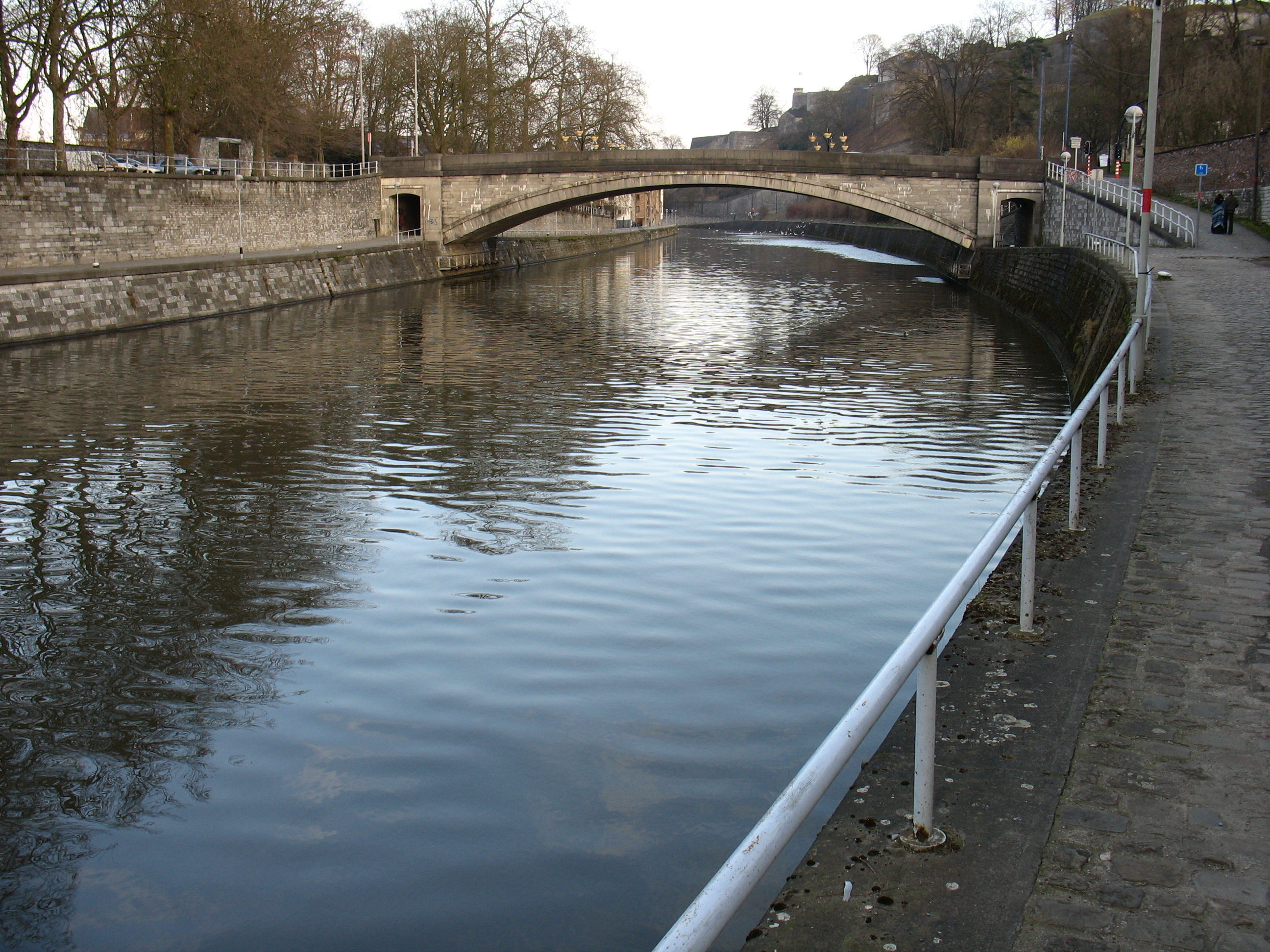 The Pont de l'Evêché in Namur, over the Sambre river. Citadelle de Namur is visible in the background.